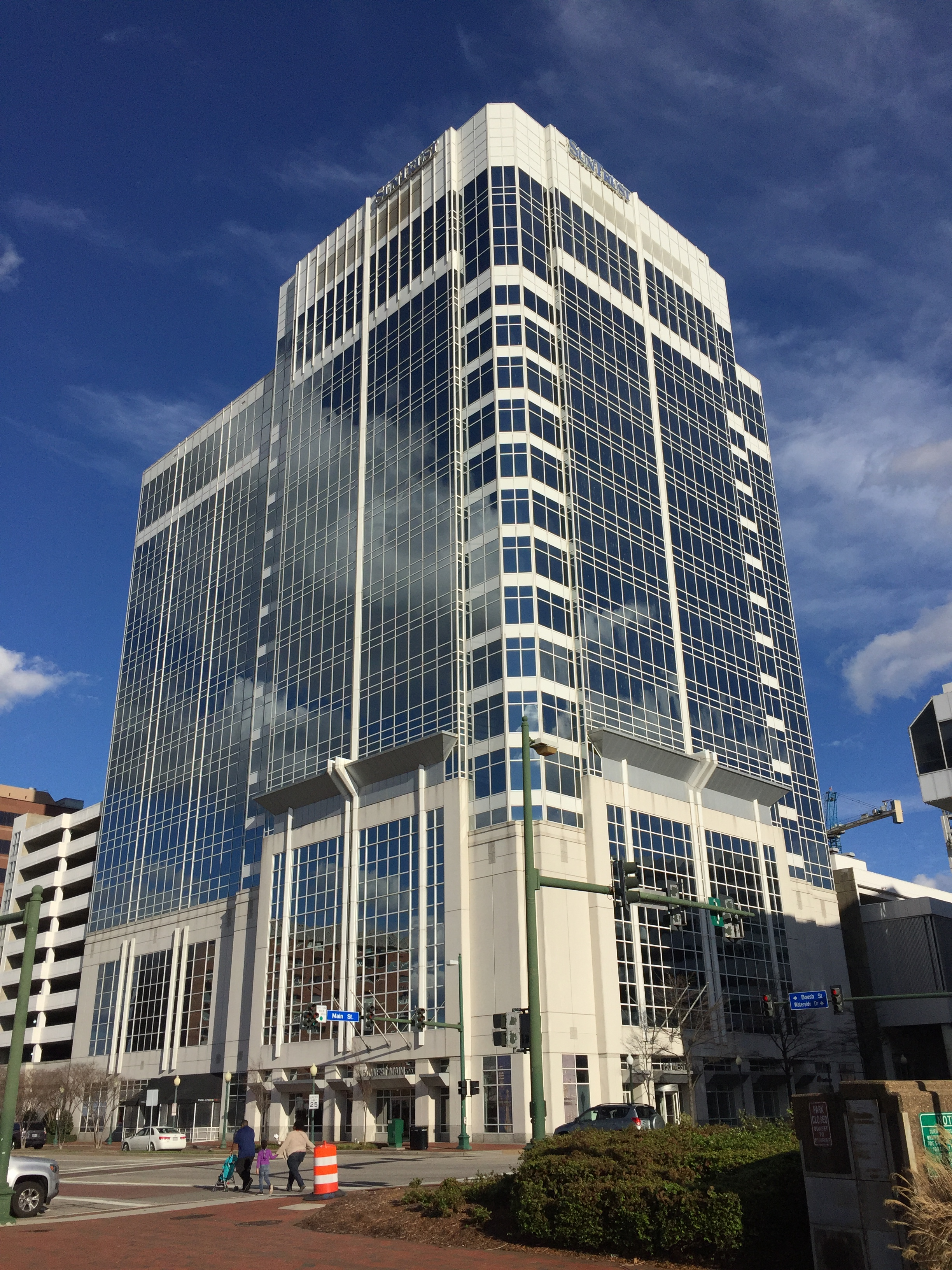 SunTrust Tower, 150 West Main St Norfolk Virginia USA